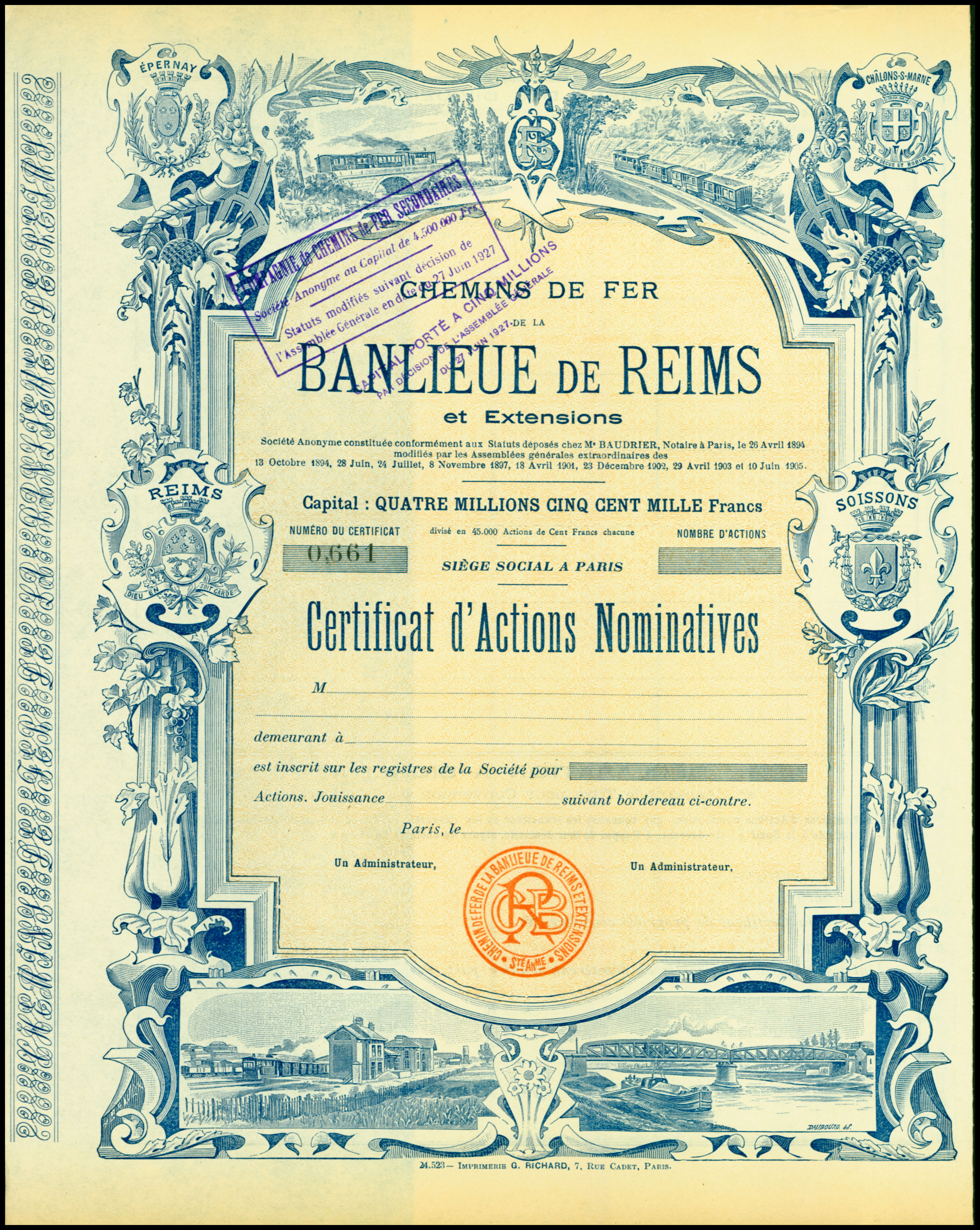 blank form of the share of the Chemins de Fer de la Banlieue de Reims et Extensions SA, issued 1905